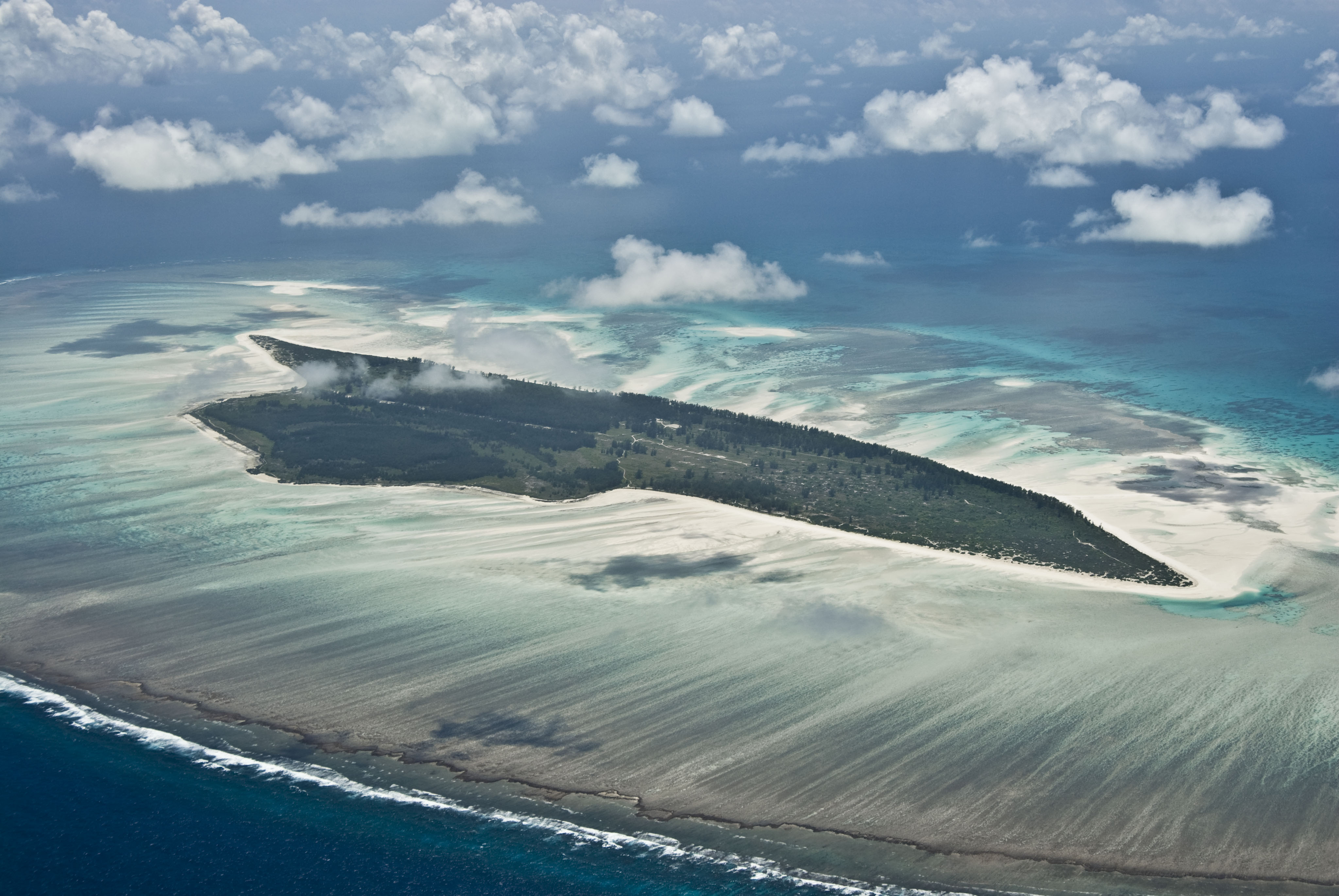 Aerial view of Juan de Nova island in Indian Ocean belonging to Scattered islands, within the territory of the France.